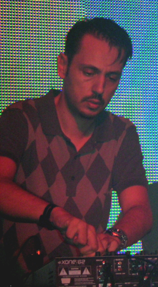 Dimitri from Paris / Dimitri from Paris. Retouched version of [1] (cropped, higher contrast).